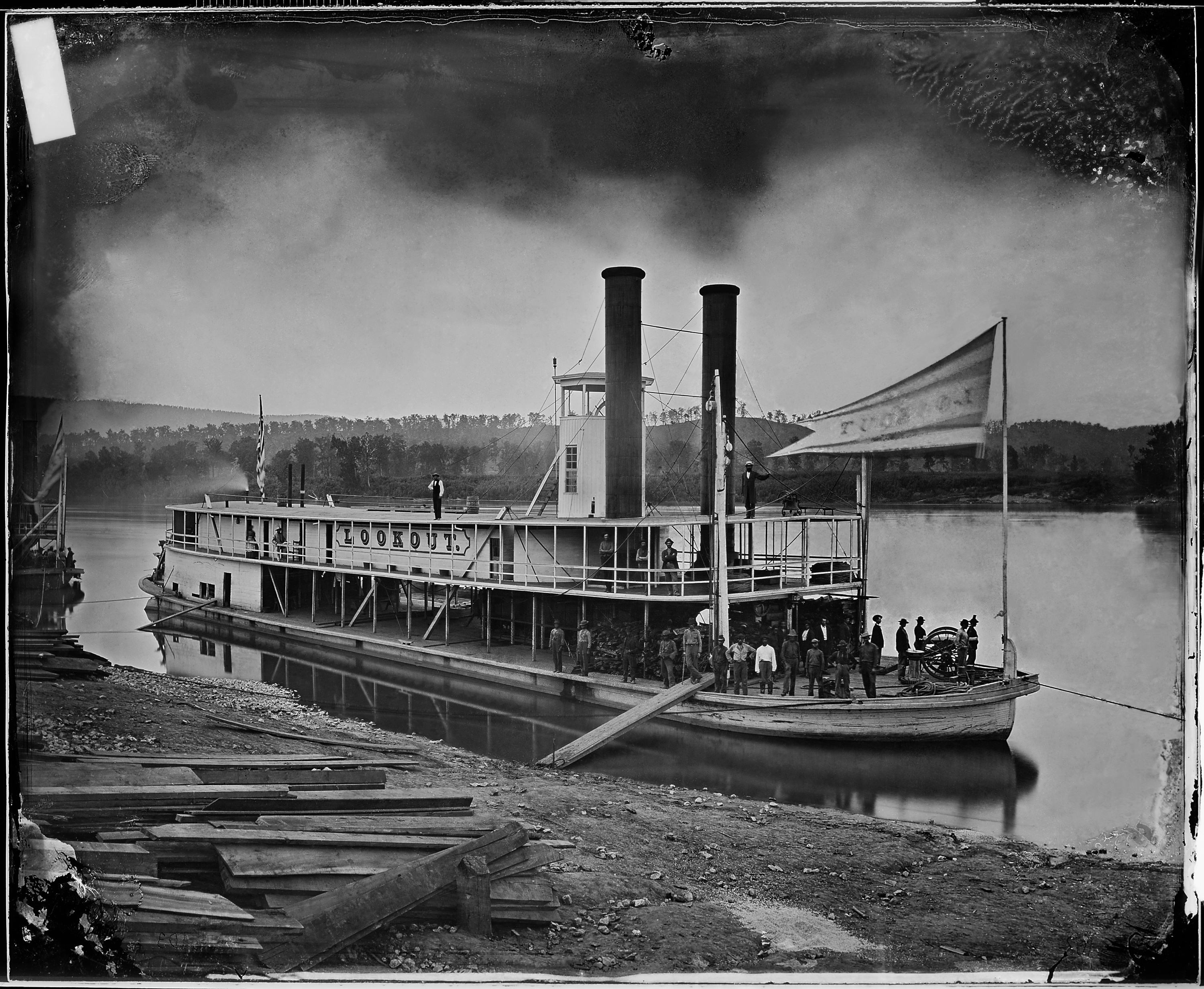 General notes: restored jpg from original tif, can´t crop it more without loss, Hrald